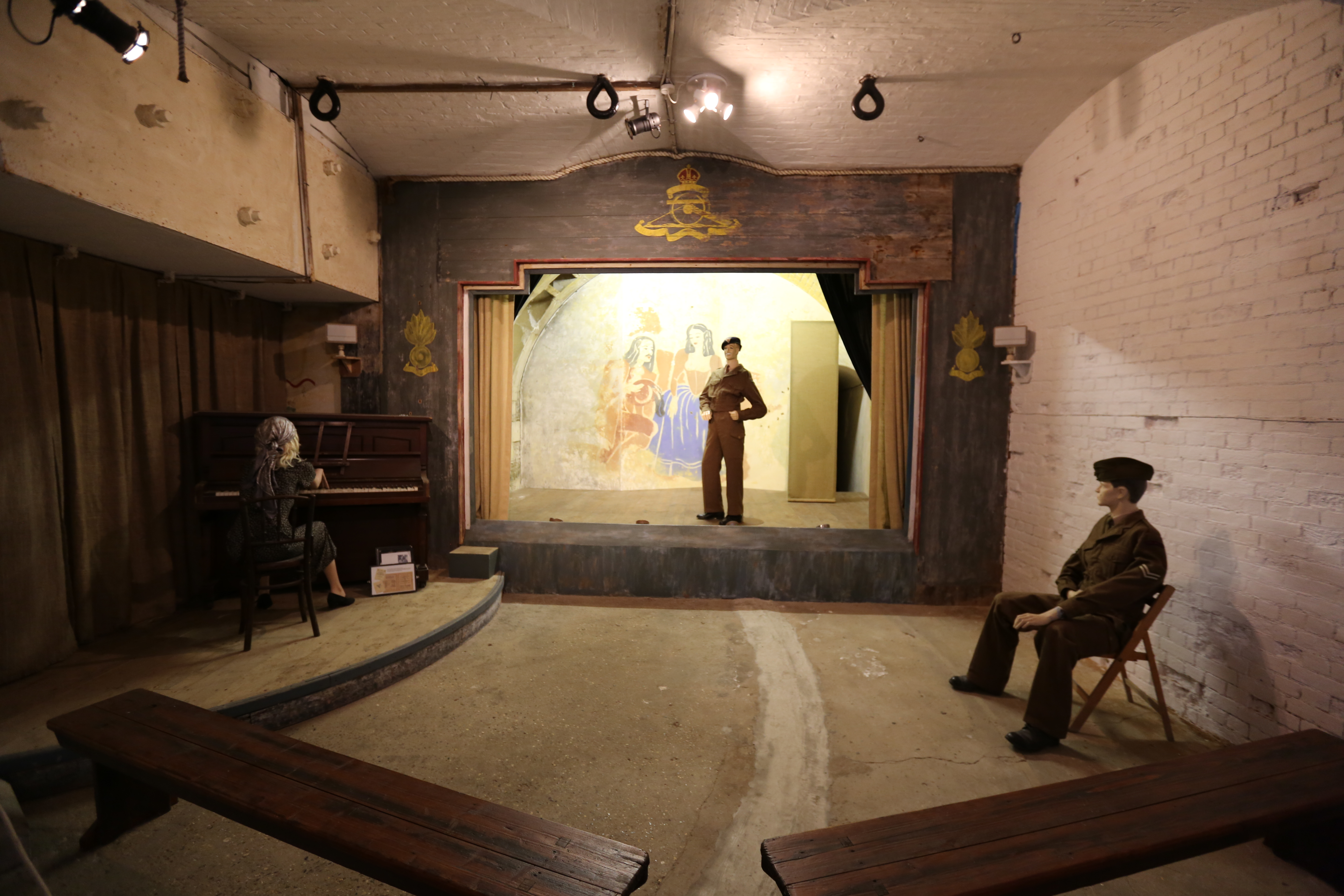 Photo of the ww2 Theatre in hurst castle